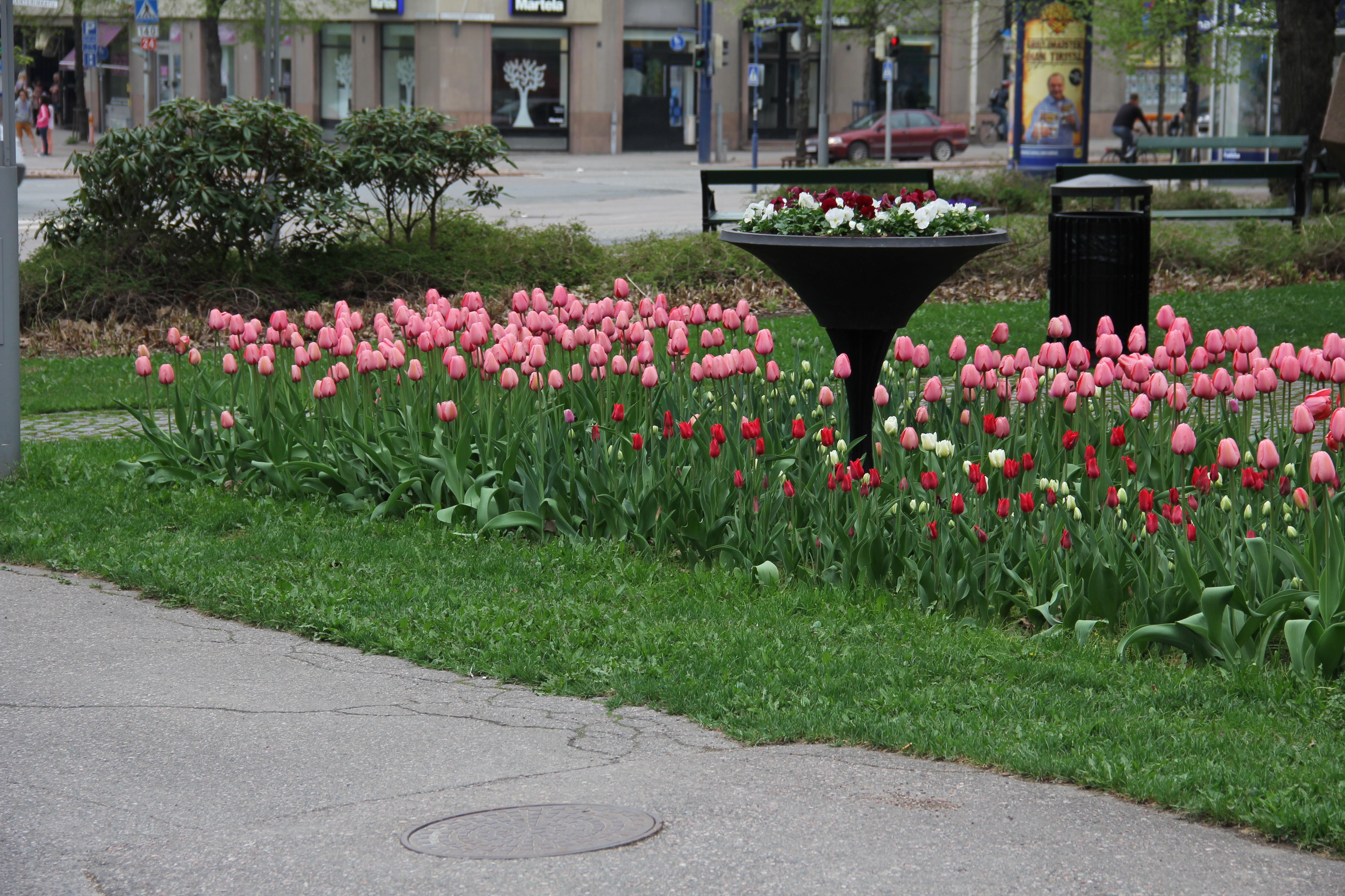 Tulips in Erkonpuisto Park, Lahti, Finland.